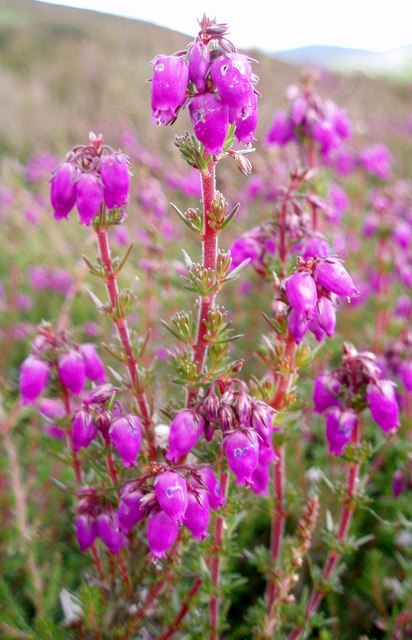 Bell Heather (Erica cinerea) The heather is just coming into flower with small clumps beginning to bloom.